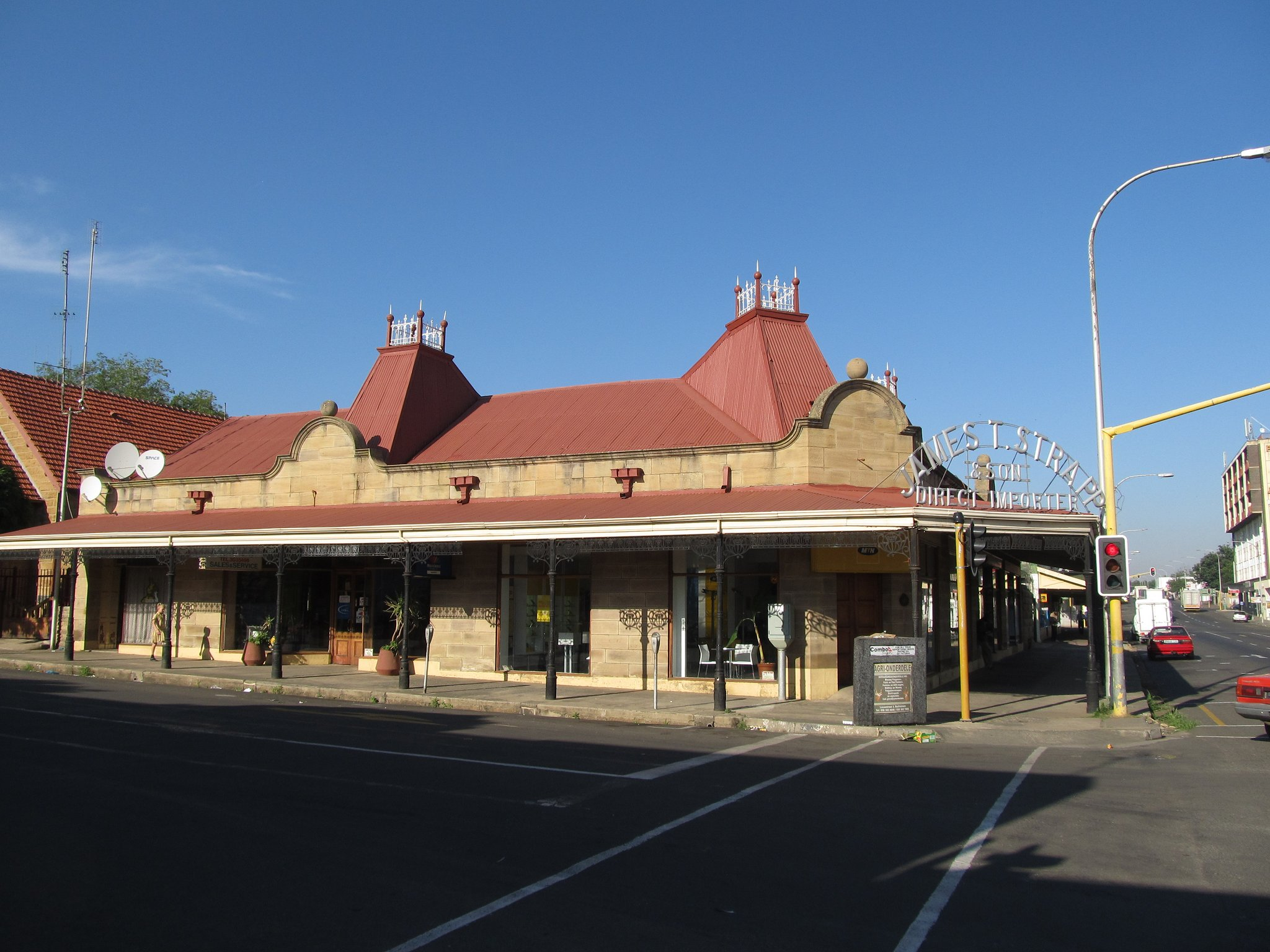 Strapp's Shop, 18 Church Street, Bethlehem This media shows a South African Protected Site with SAHRA file reference 9/2/300/0017.